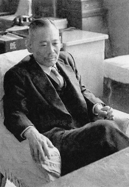 Yuki Takechi